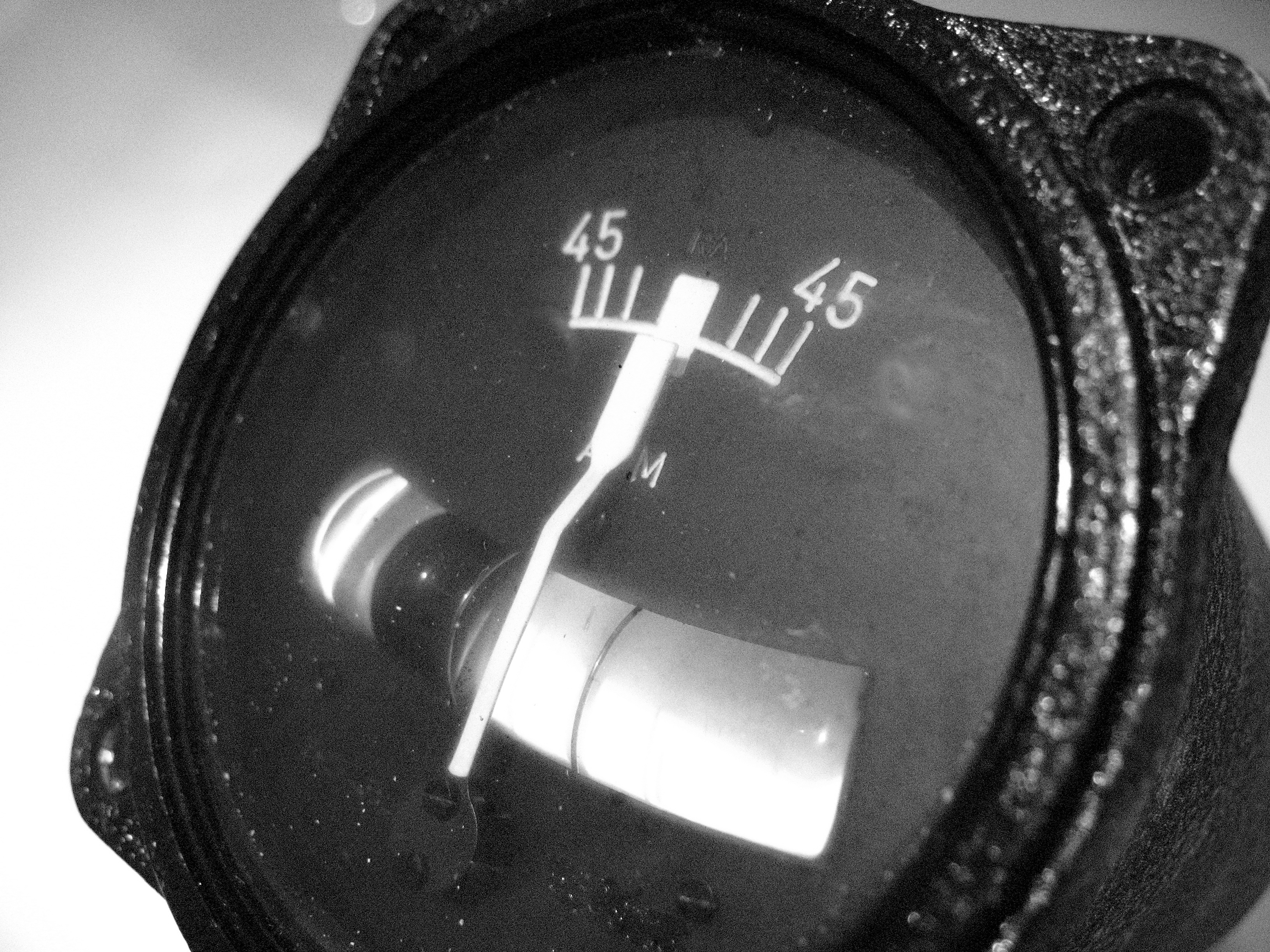 + 00000000001_Image_MIG 15_Turn and slip indicator